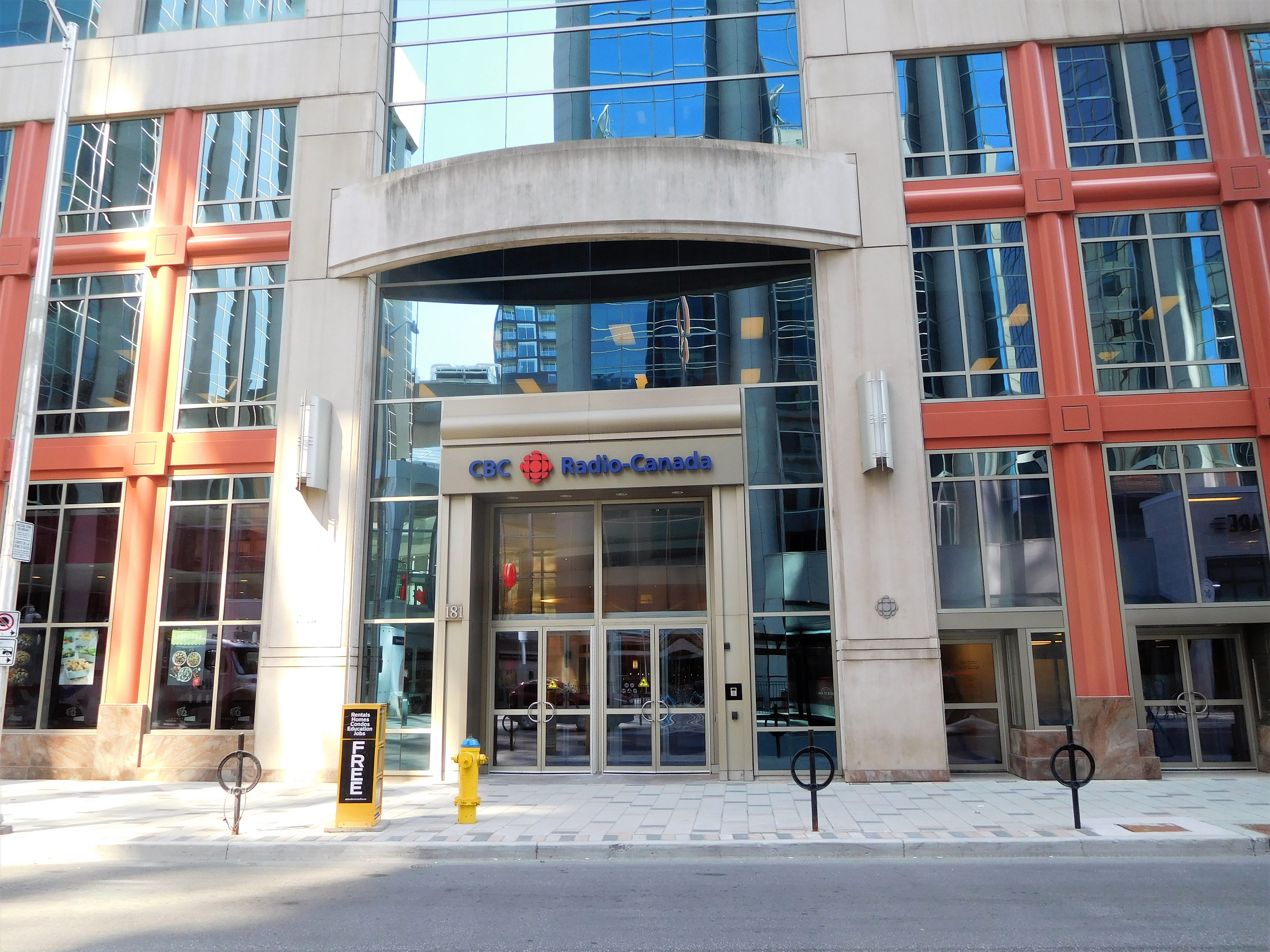 CBC Ottawa Broadcast Centre, 181 Queen Street, Ottawa